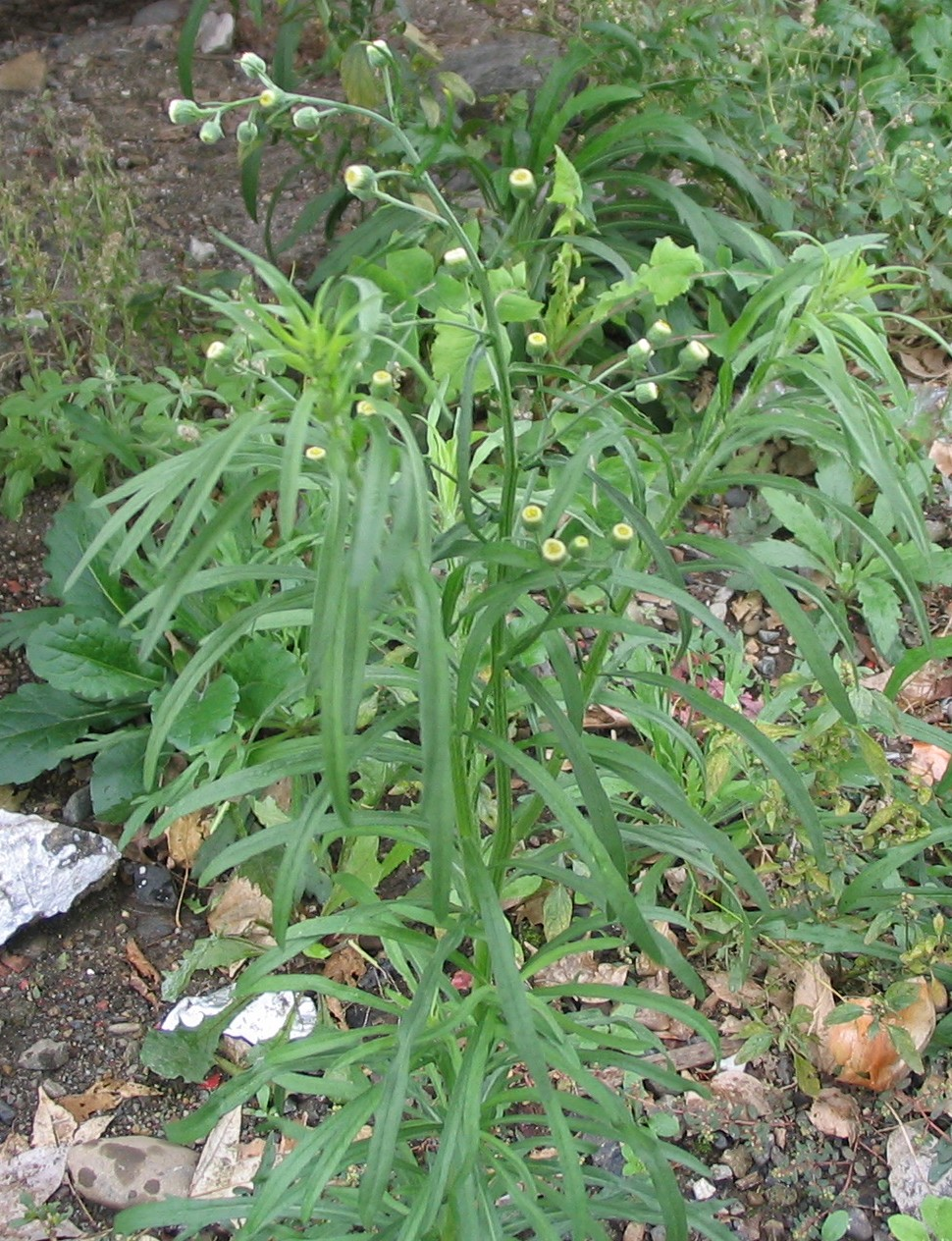 Conyza bonariensis / Hairly fleabane